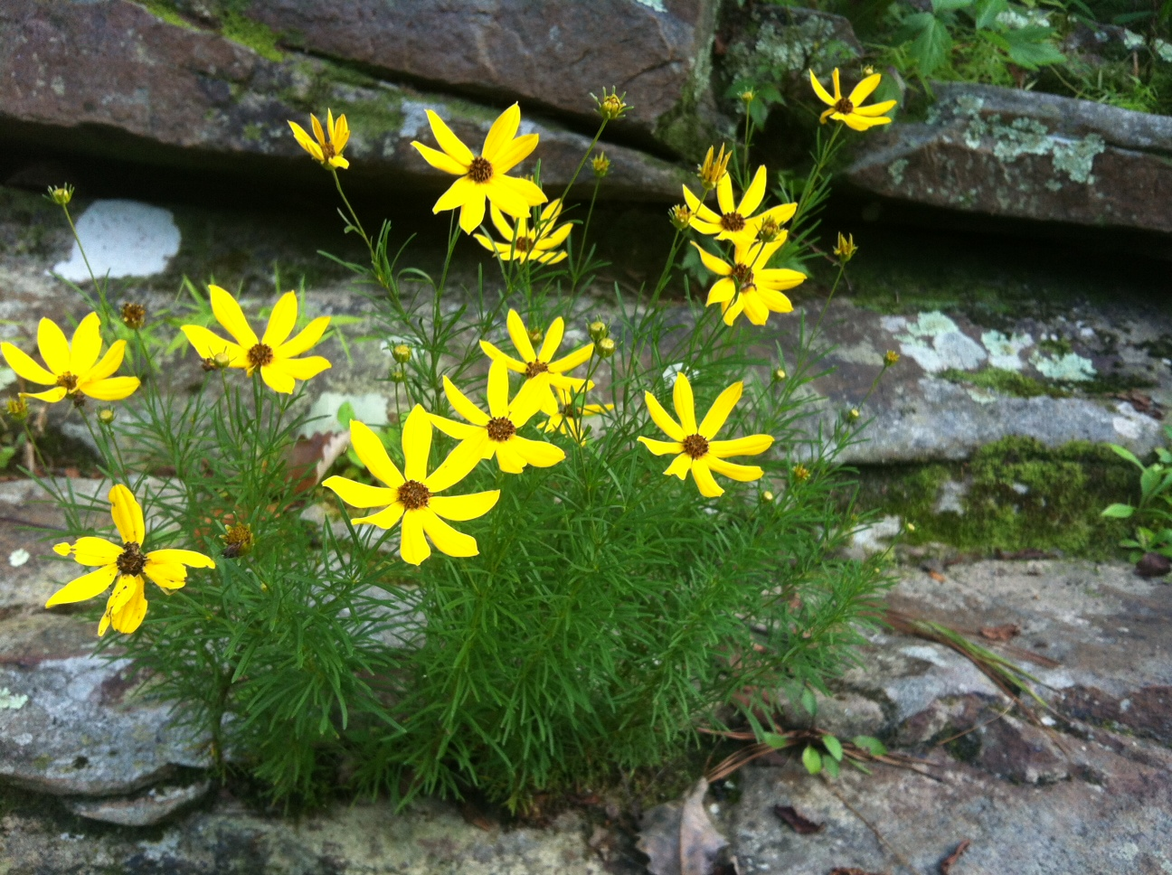 Coreopsis pulchra, Locust Fork of the Black Warrior River, Alabama.